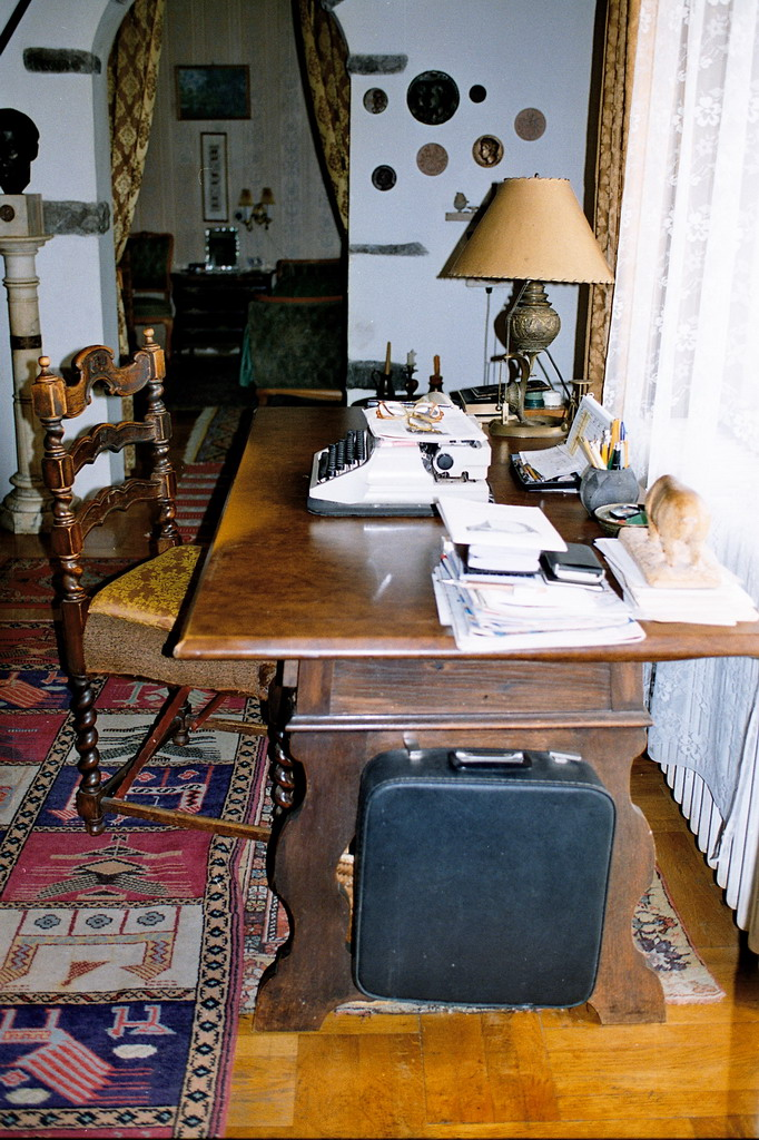 Detail of Hubert Kessler's flat in Budapest